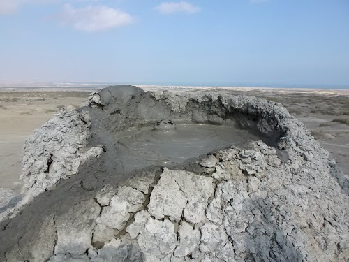 Mud volceno